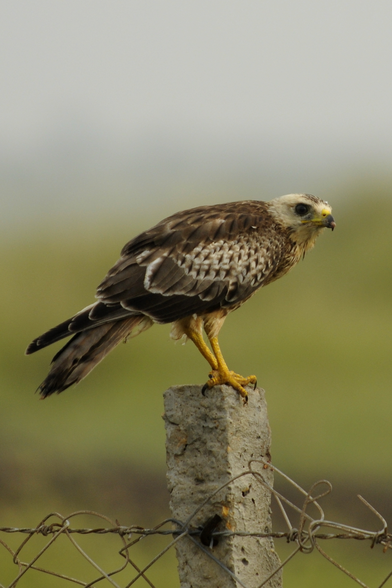 White-eyed Buzzard juvenile on a fence in Desert National Park, Rajasthan, India